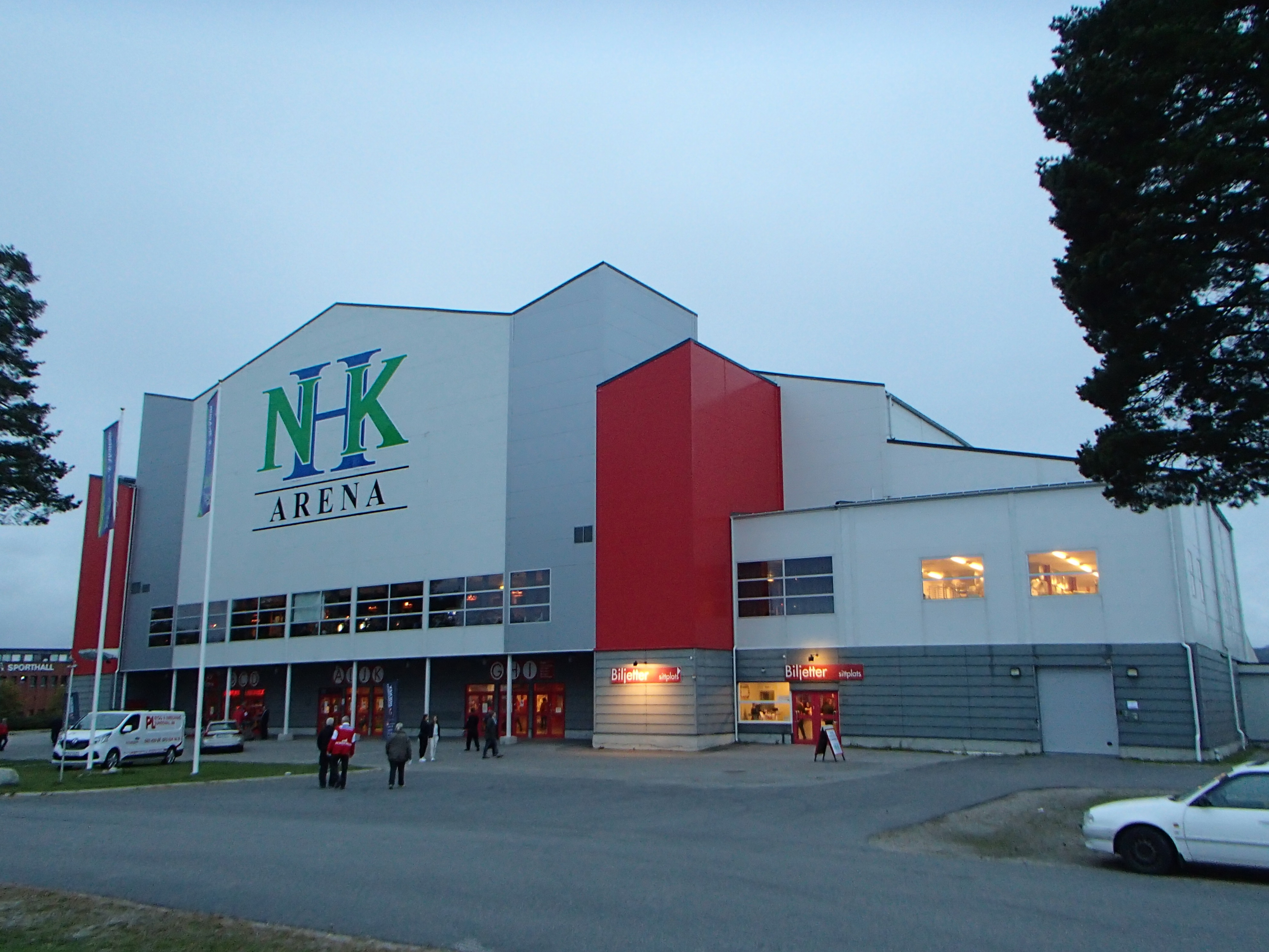 The ice hockey venue "NHK Arena" at Sportvägen 4 in Sörberge, Timrå Municipality, main spectator entrance viewed from east